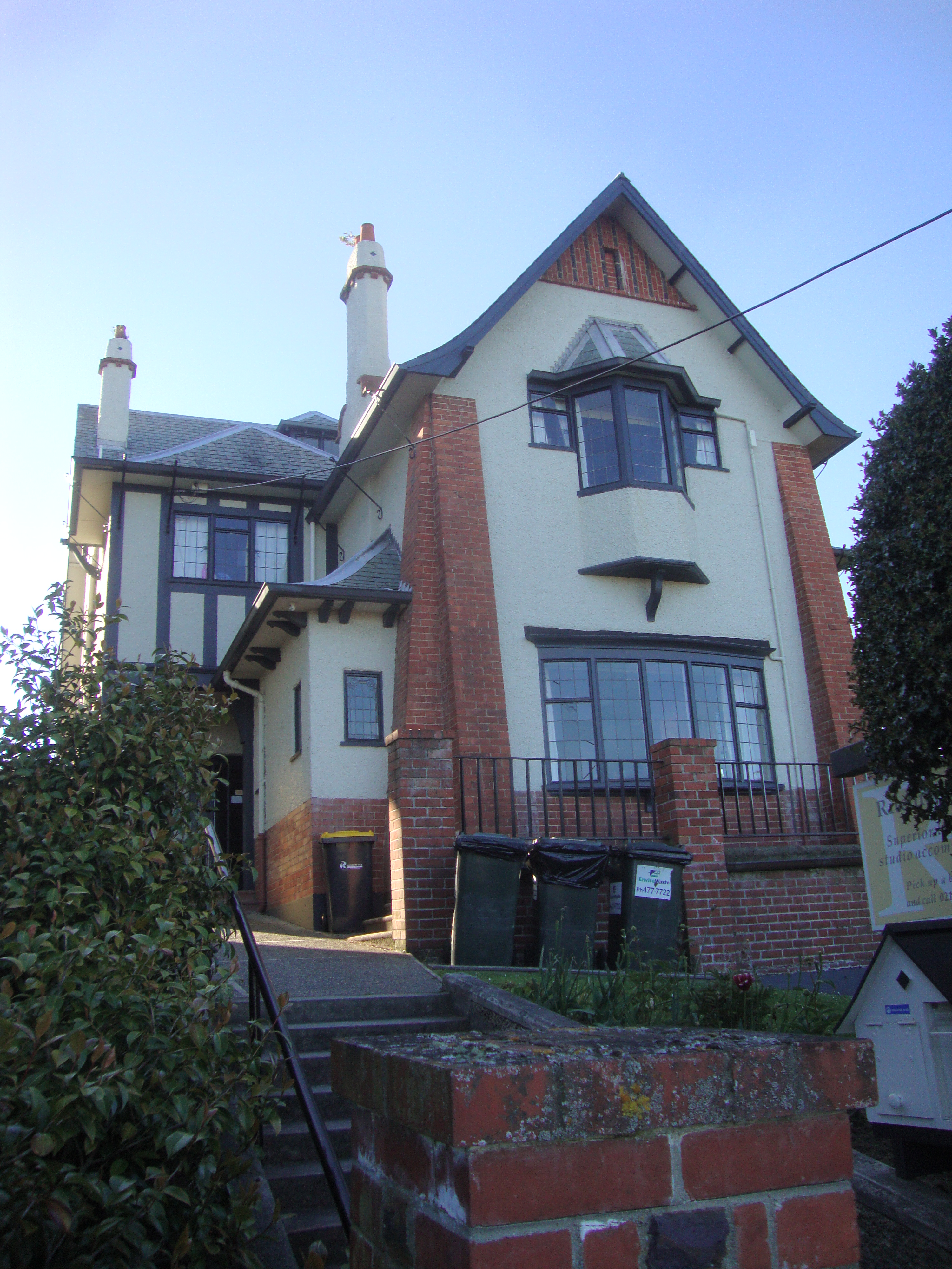 Somewhere in Dunedin.